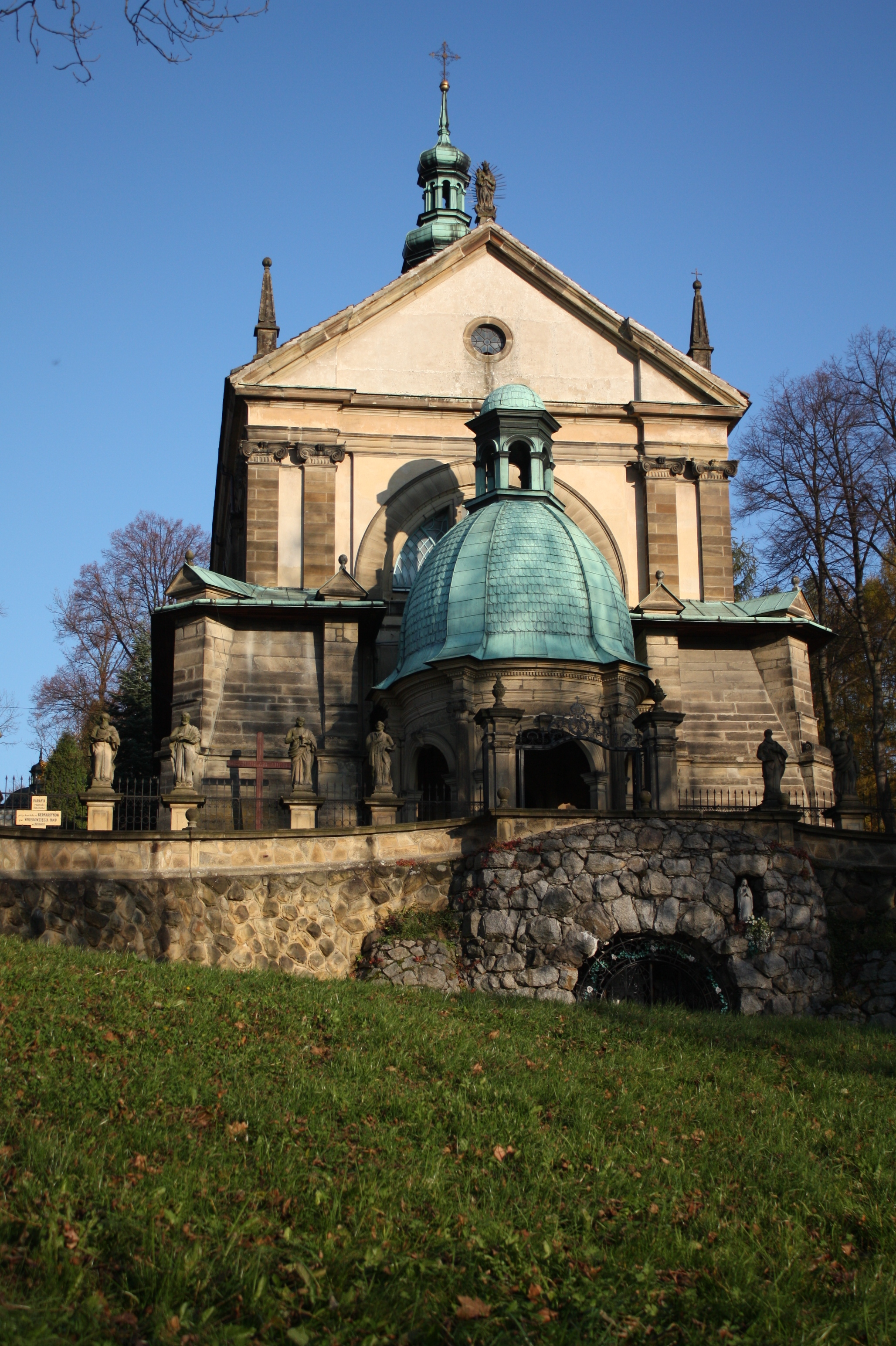 Church of the Dormition of St. Mary in Brody